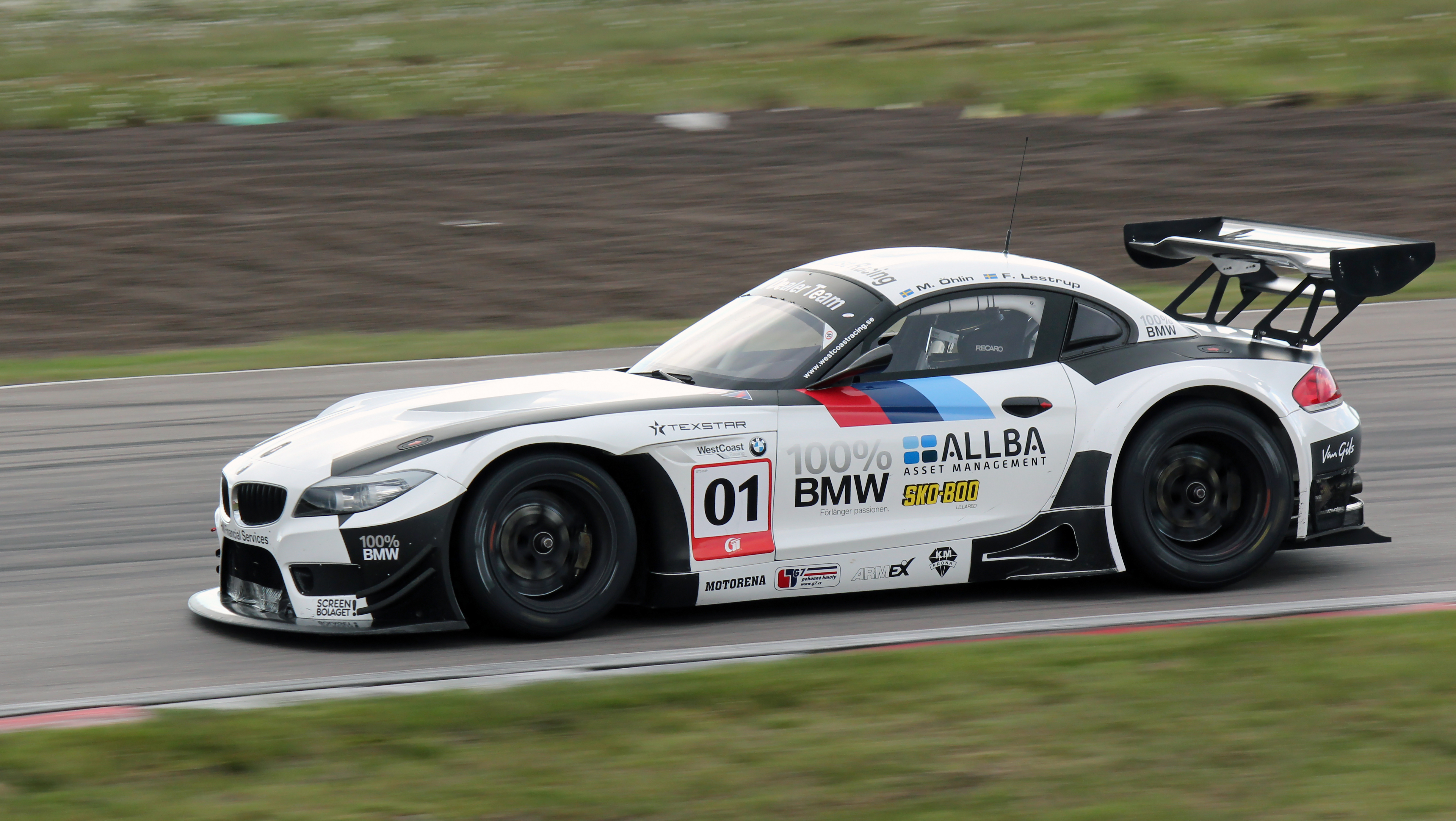 Martin Öhlin in a BMW Z4 GT3 for WestCoast Racing in Swedish GT Series at Anderstorp Raceway in 2012. His team mate was Fredrik Lestrup.